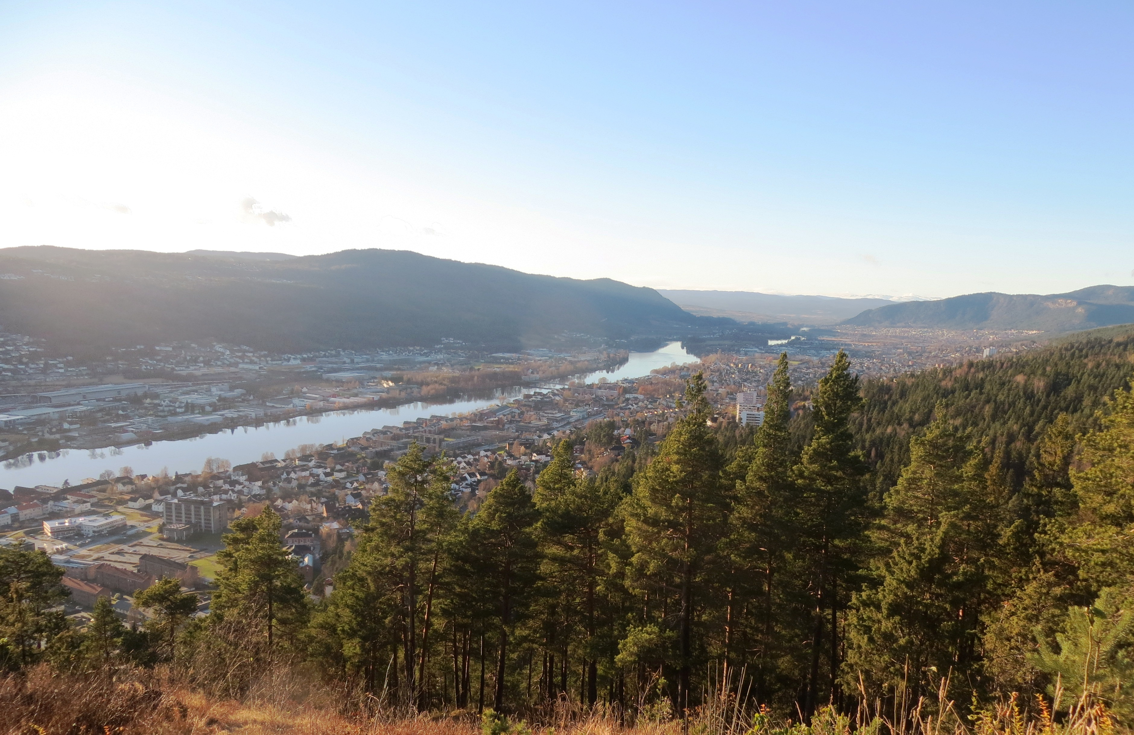 Drammenselva river, seen from atop the Bragernes Hills, Drammen (Norway)